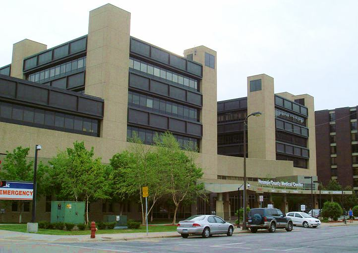 Main entrance of Hennepin County Medical Center in downtown Minneapolis, Minnesota.